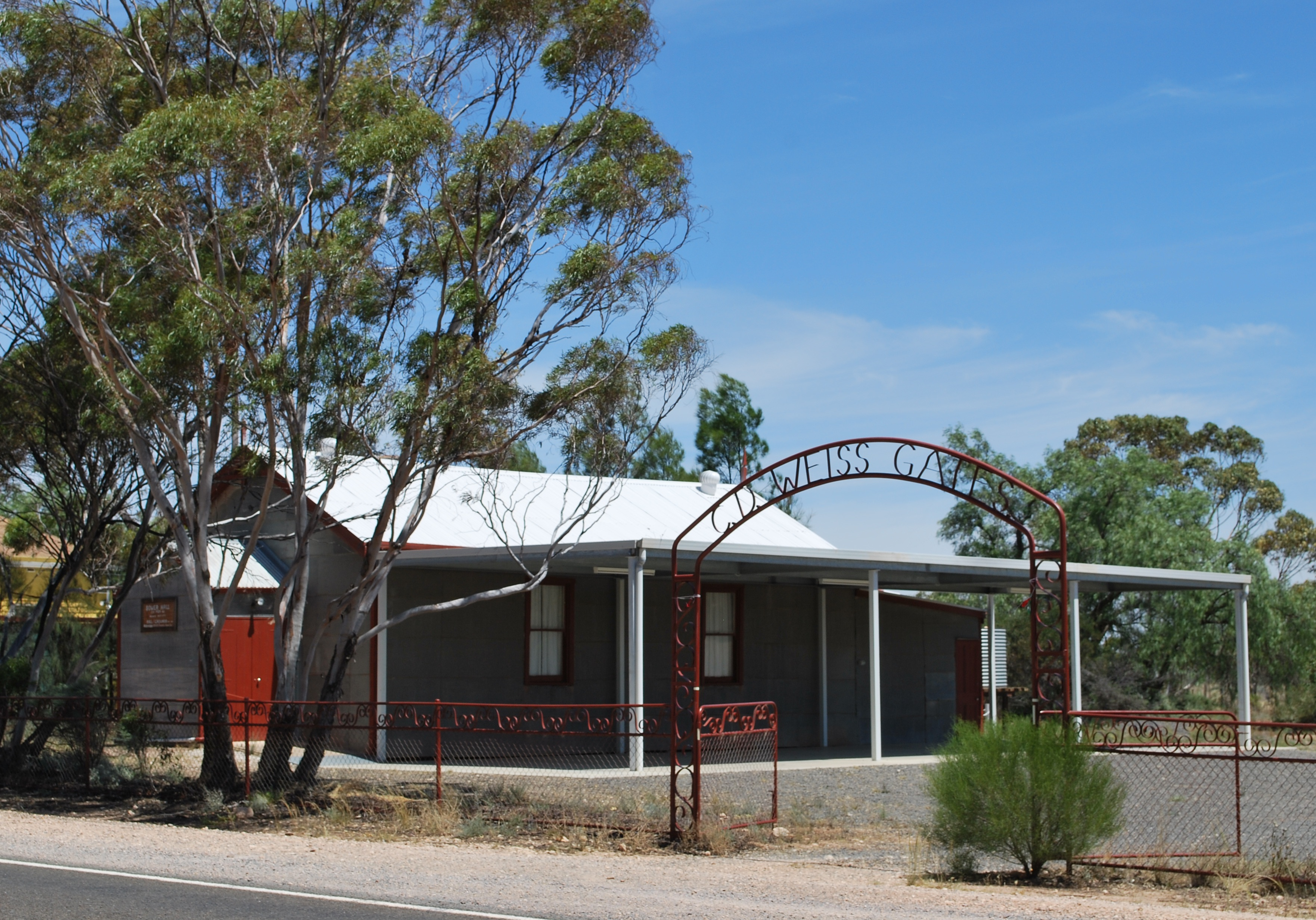 Public hall and C D Weiss gates at Bower, South Australia